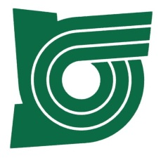 Kaminokawa Tochigi chapter